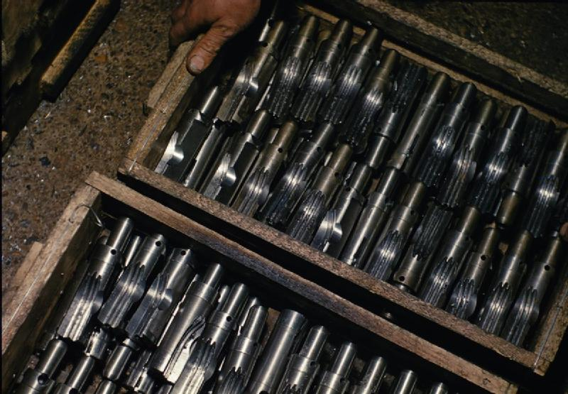 Sten Gun Production in Britain, 1943 Milling drills.